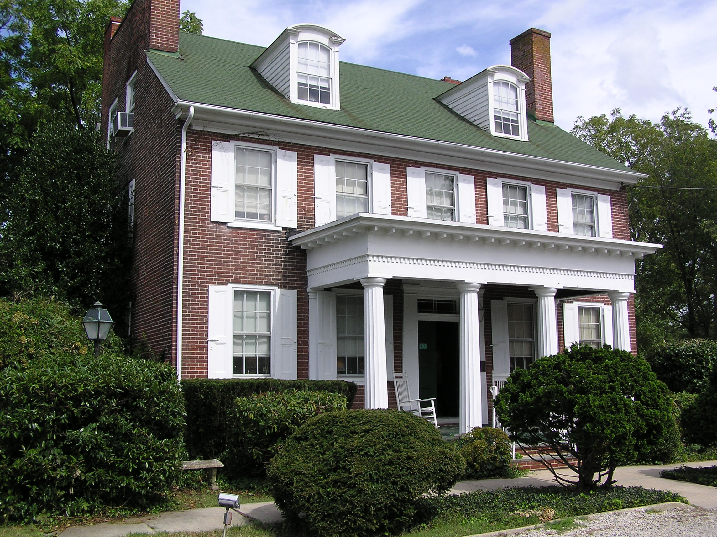 Stokes - Evans House at 52 East Main Street in Marlton, NJ. The building is currently occupied by the Harvest House Mansion, a furniture store.